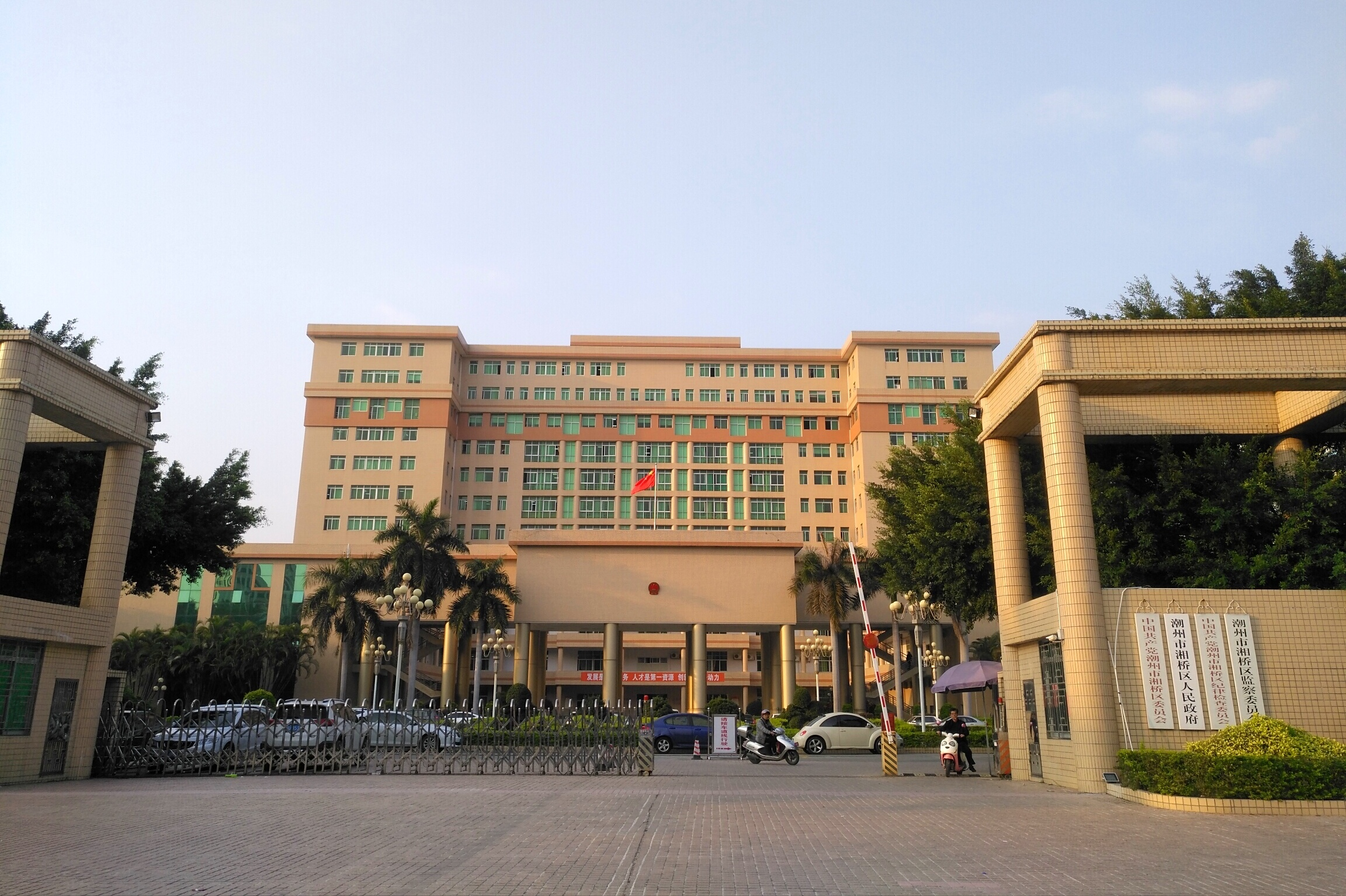 People's Government of Xiangqiao District, Chaozhou City